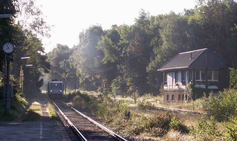 Dalheim railway station in the German town of Wegberg close to the border to the Netherlands.